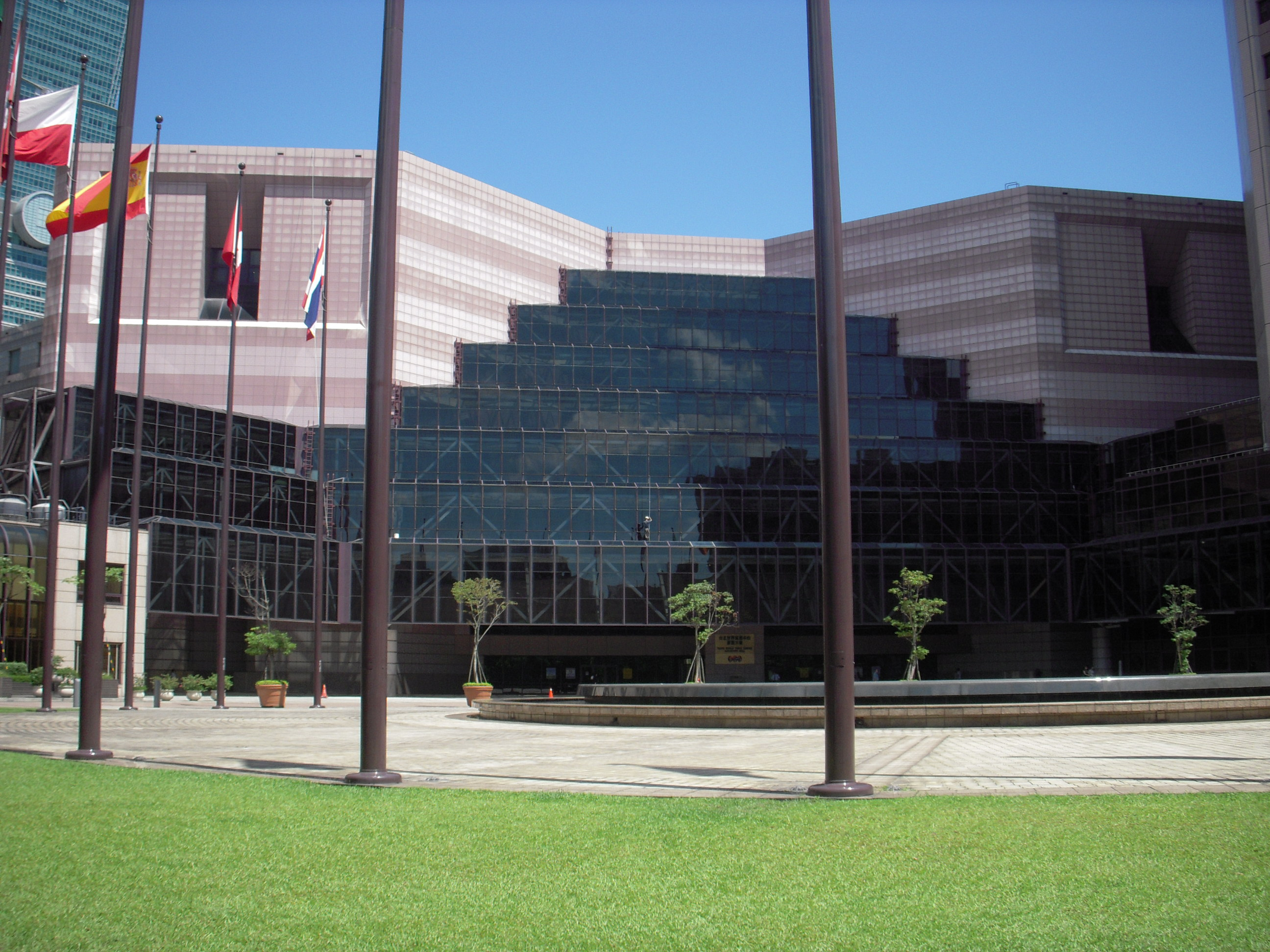 Jilong Road square of Taipei World Trade Center Exhibition Hall。